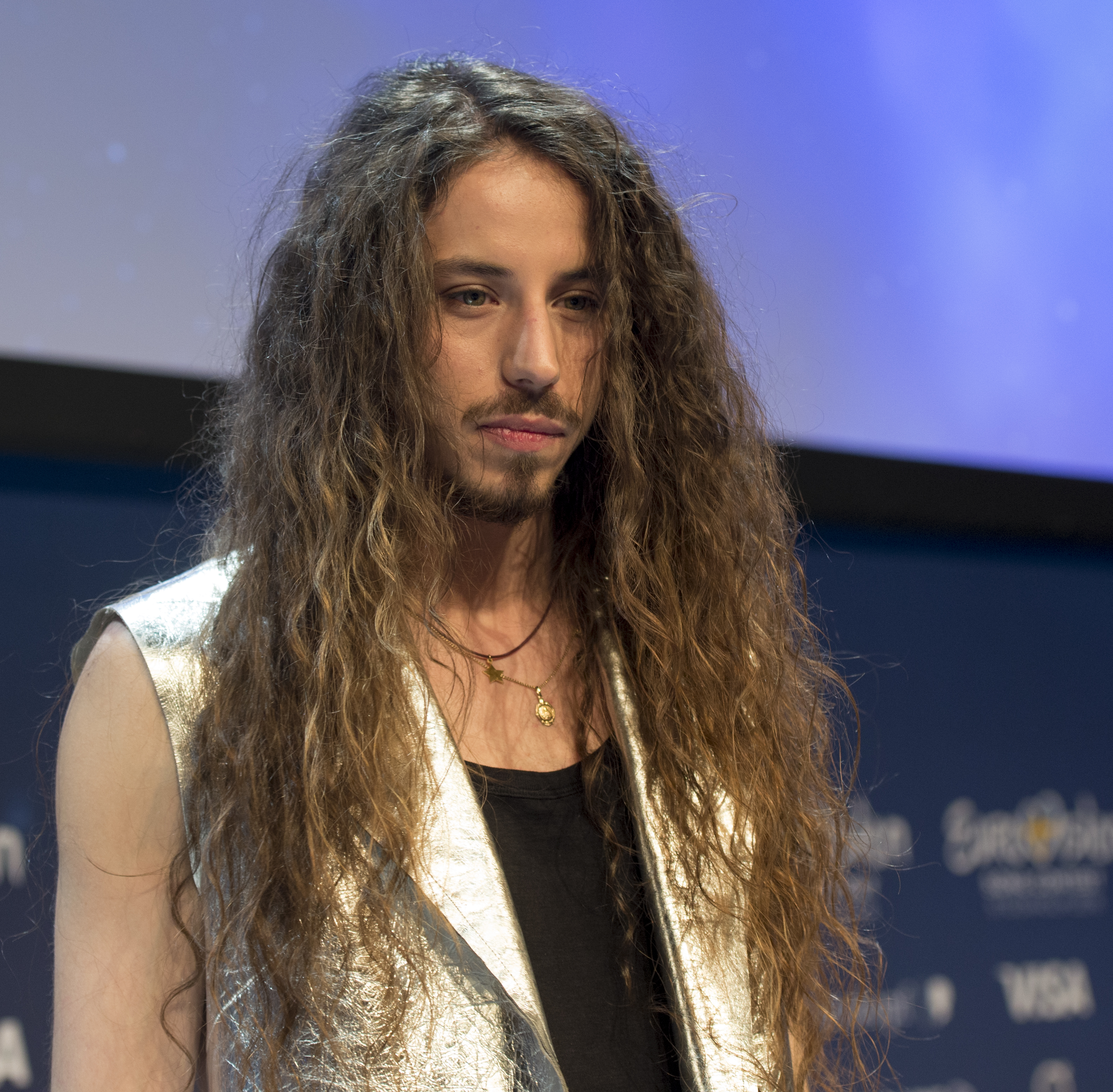 Michał Szpak at a Meet & Greet during the Eurovision Song Contest 2016 in Stockholm. (Help translate this text)